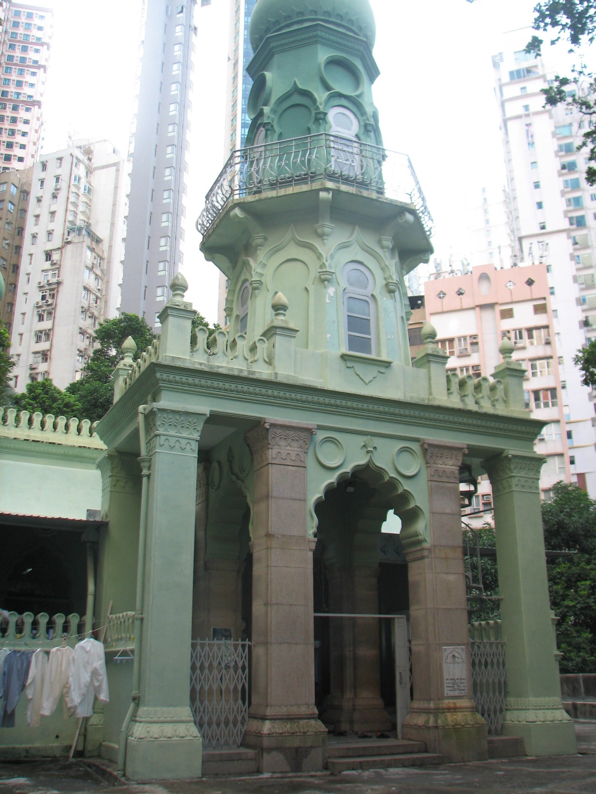 Shelley Street Mosque